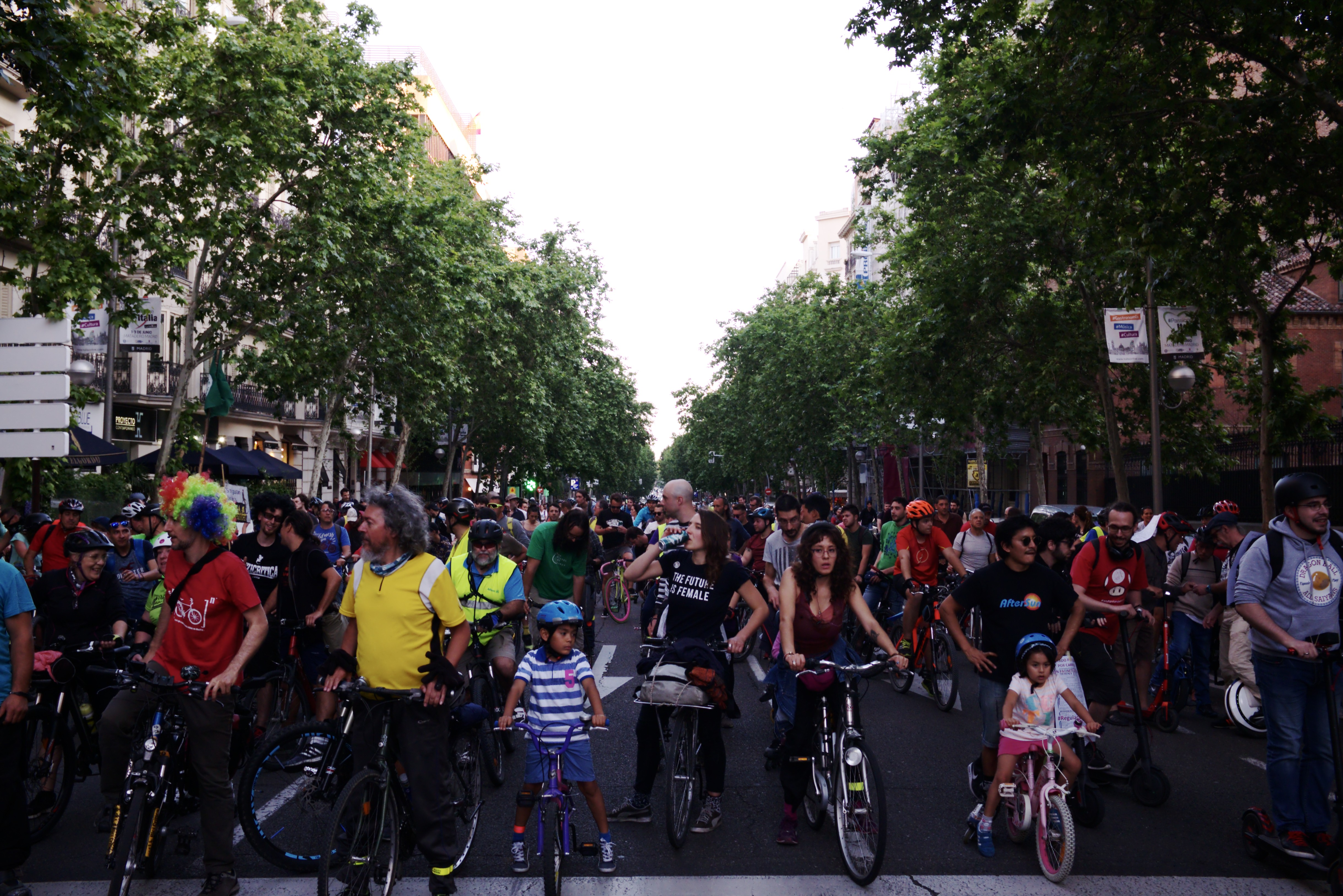 Bici Crítica (Critical Mass) in Madrid